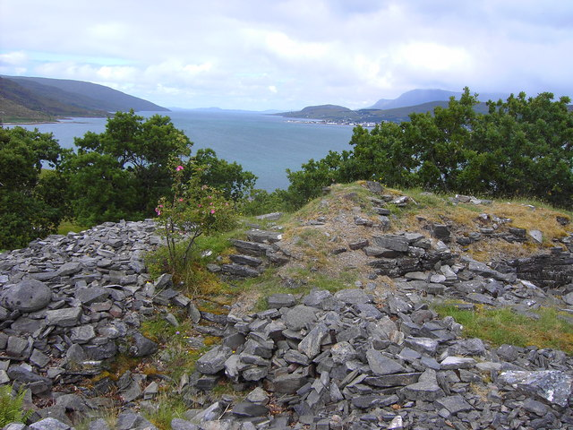 Dun Eagaibh Loch Broom and Ullapool in the background.